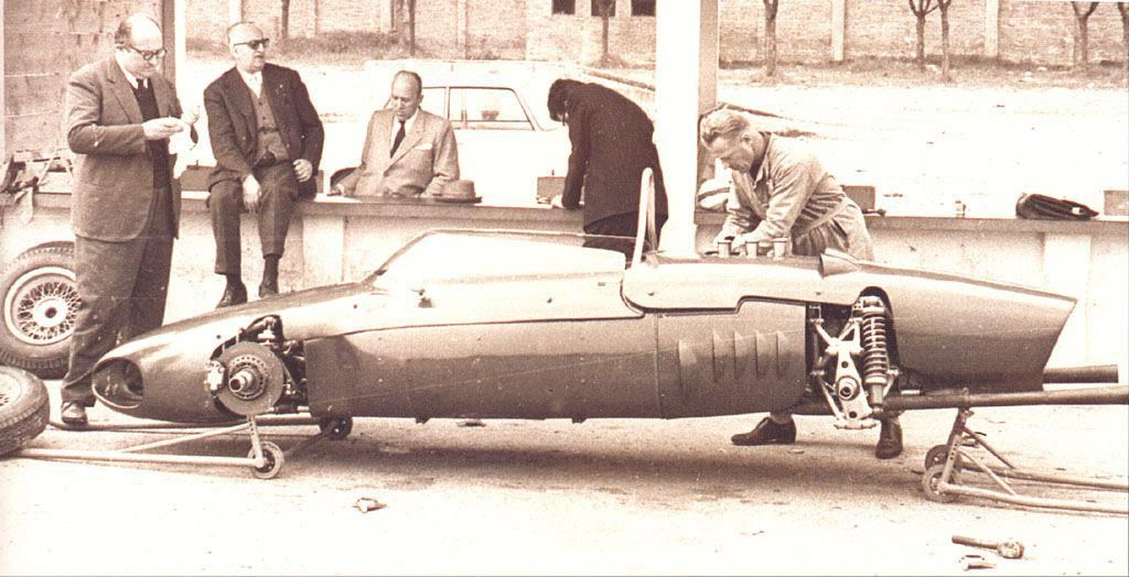 Ferrari 156 F1 in Modena, March 1961. Enzo Ferrari sits in the back. Carlo Chiti is by the nose (dark suit). Forghieri is in the back/right (turned away from us). The mechanic to the right may be Adelmo Marchetti.